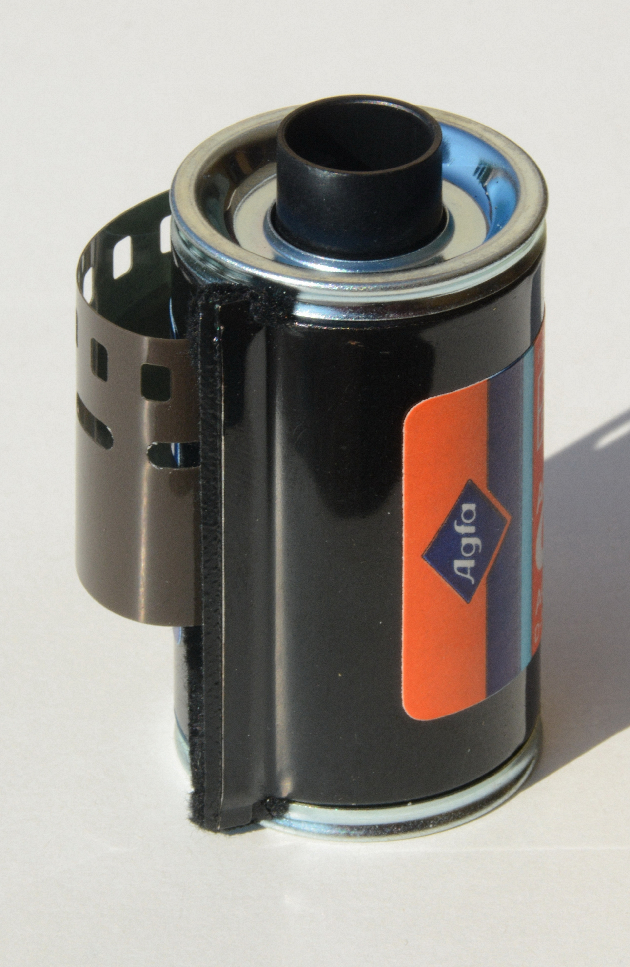 Agfa Agfachrome CT18 film for colour slides (expiration date Jan. 1981)